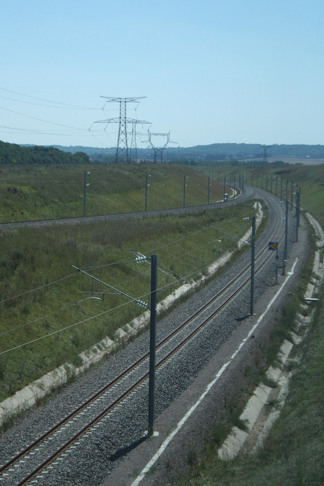 A curve that connects the LGV Est and the LGV Interconnextion Est high-speed railway lines